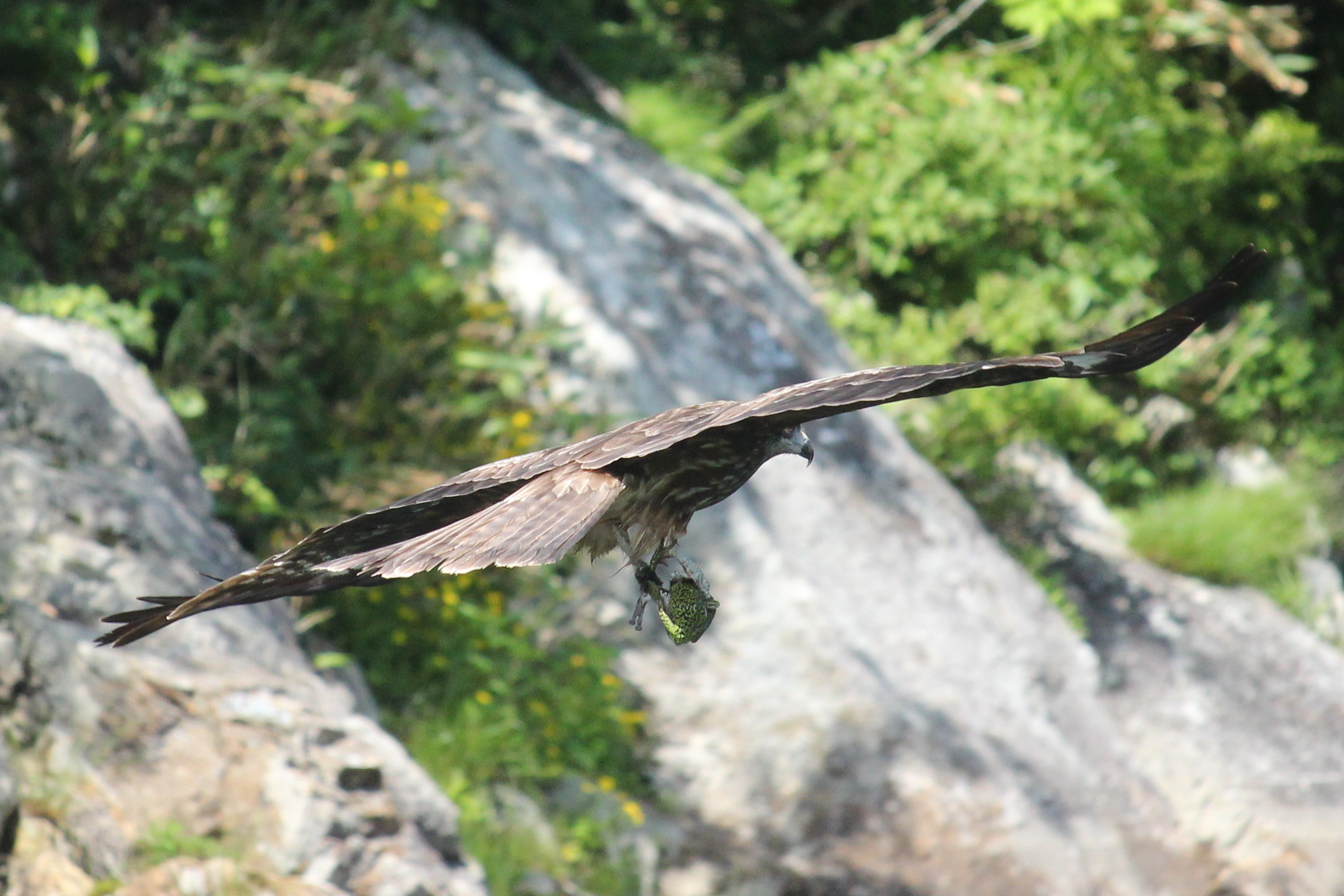 Rhacophorus arboreus captured by Milvus migrans lineatus on Yashagaike (Yasha Pond), Minamiechizen, Fukui prefecture, Japan.